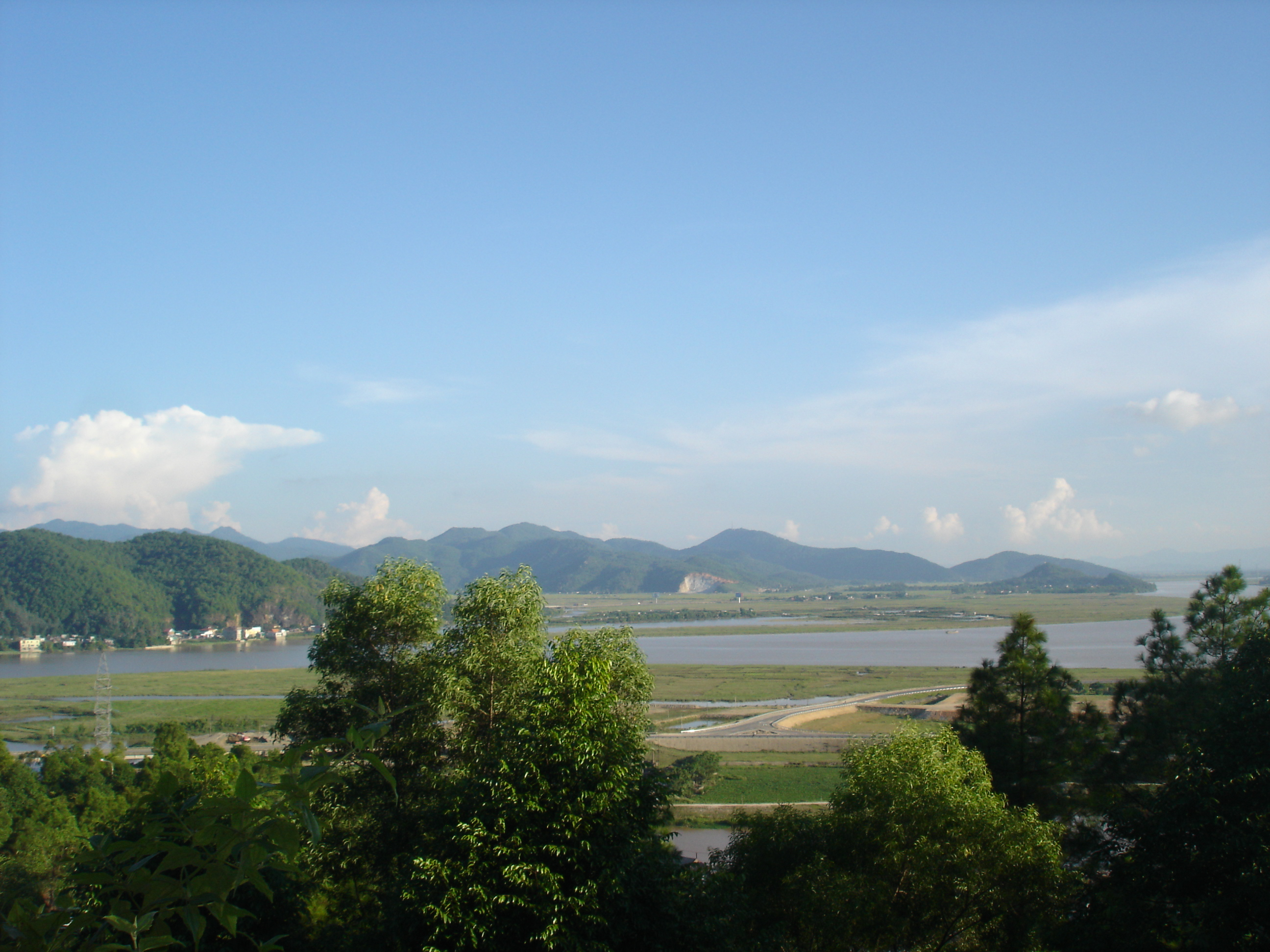 Lam river-Hong mountain